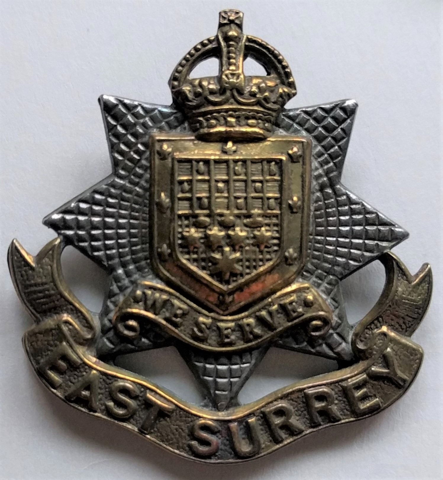 Cap badge, worn by 13th (Service) Battalion (Wandsworth), East Surrey Regiment during First World War. Shows Borough of Wandsworth coat of arms.